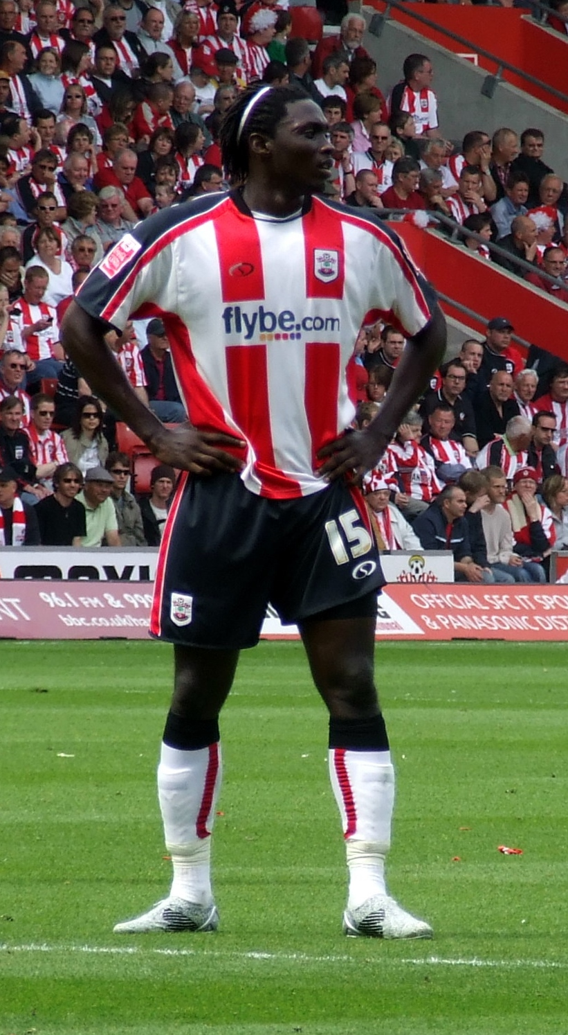 Picture of Kenwyne Jones playing against Southend United F.C.